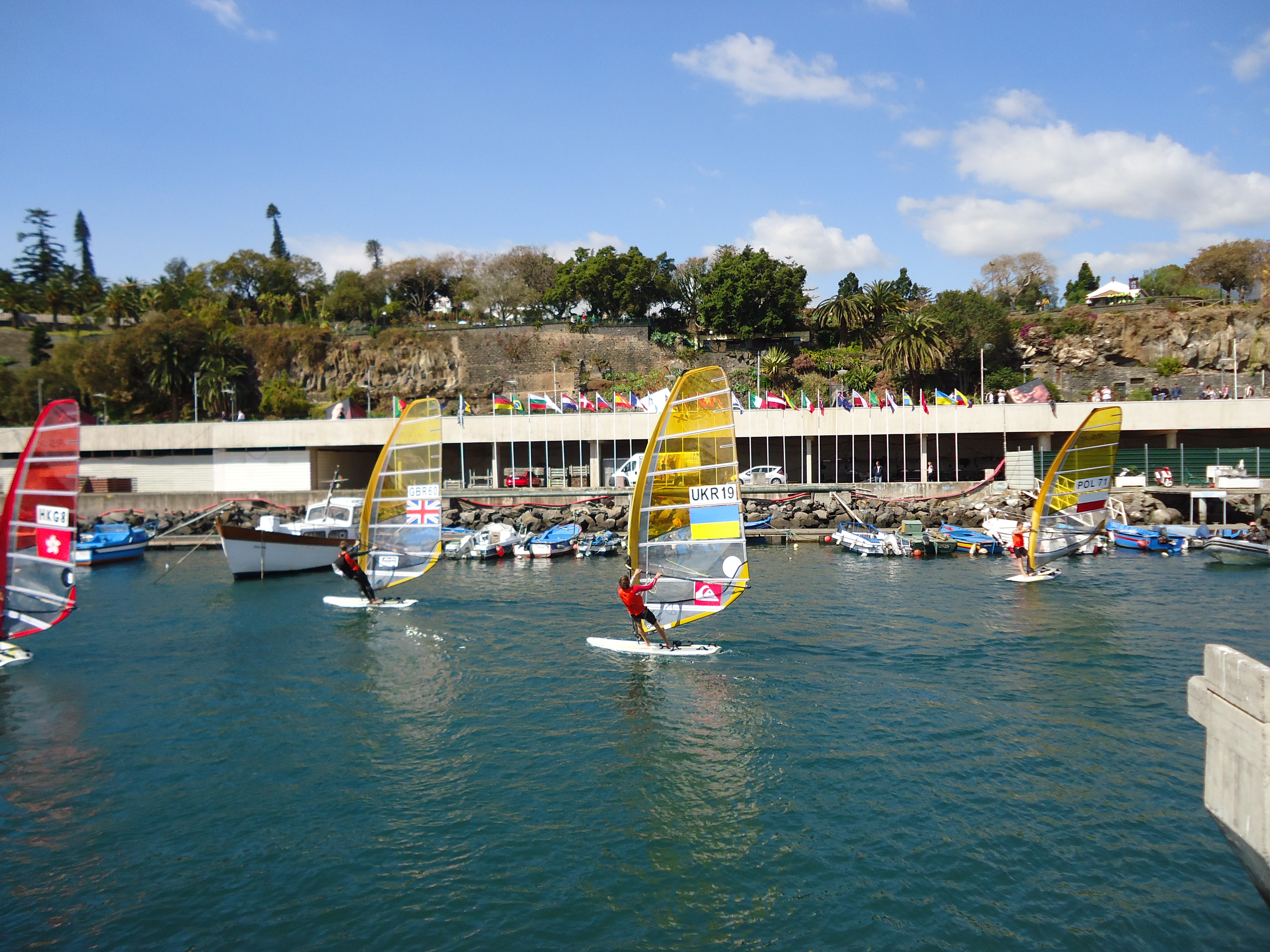 RS:X 2012 European Windsurfing Championship, Funchal, Madeira - Day 1 - Registration & Equipment Check / Practice Race SÃO LÁZARO WATER-SPORTS CENTER, Funchal, Madeira